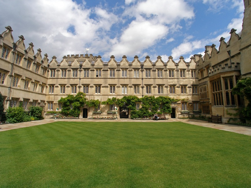 The second quadrangle of Jesus College, Oxford. The Dutch gables have ogee sides and semi-circular pediments. The writer Simon Jenkins said that the quadrangle has "the familiar Oxford Tudor windows and decorative Dutch gables, crowding the skyline like Welsh dragons' teeth..."[1]